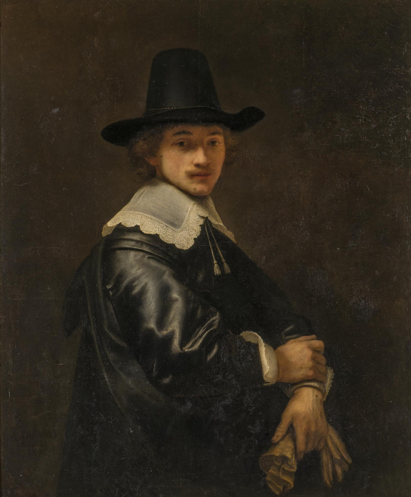 Walich Schellingwou, unknown painter, 1641, 112 x 93 cm, oil on canvas, Hermitage, Saint Petersburg